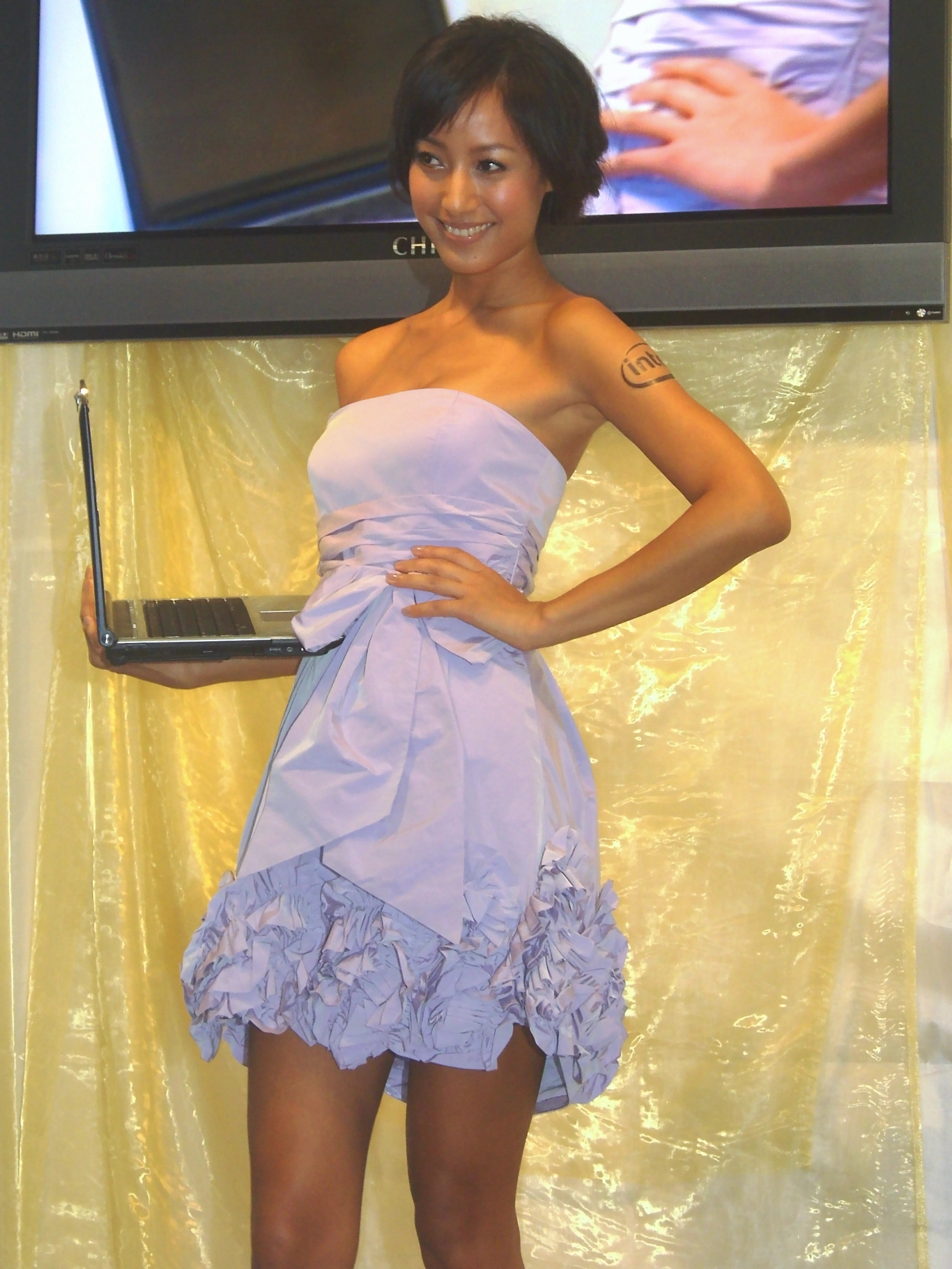 Intel in 2008 Taipei Computer Applications Show: Coco Chiang, a model from Hong Kong.